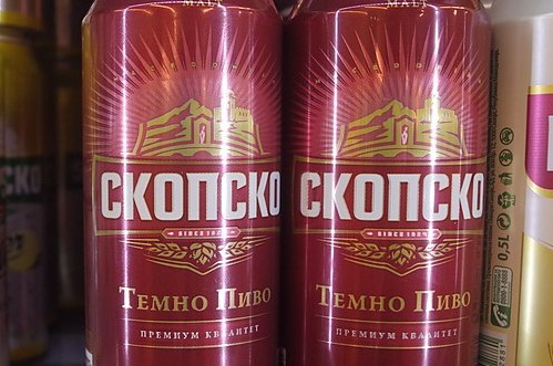 Skopsko Dark